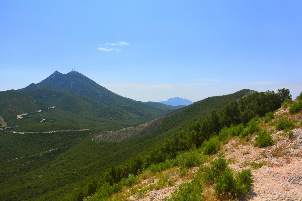 View from the inside of the Parc Boukornine.